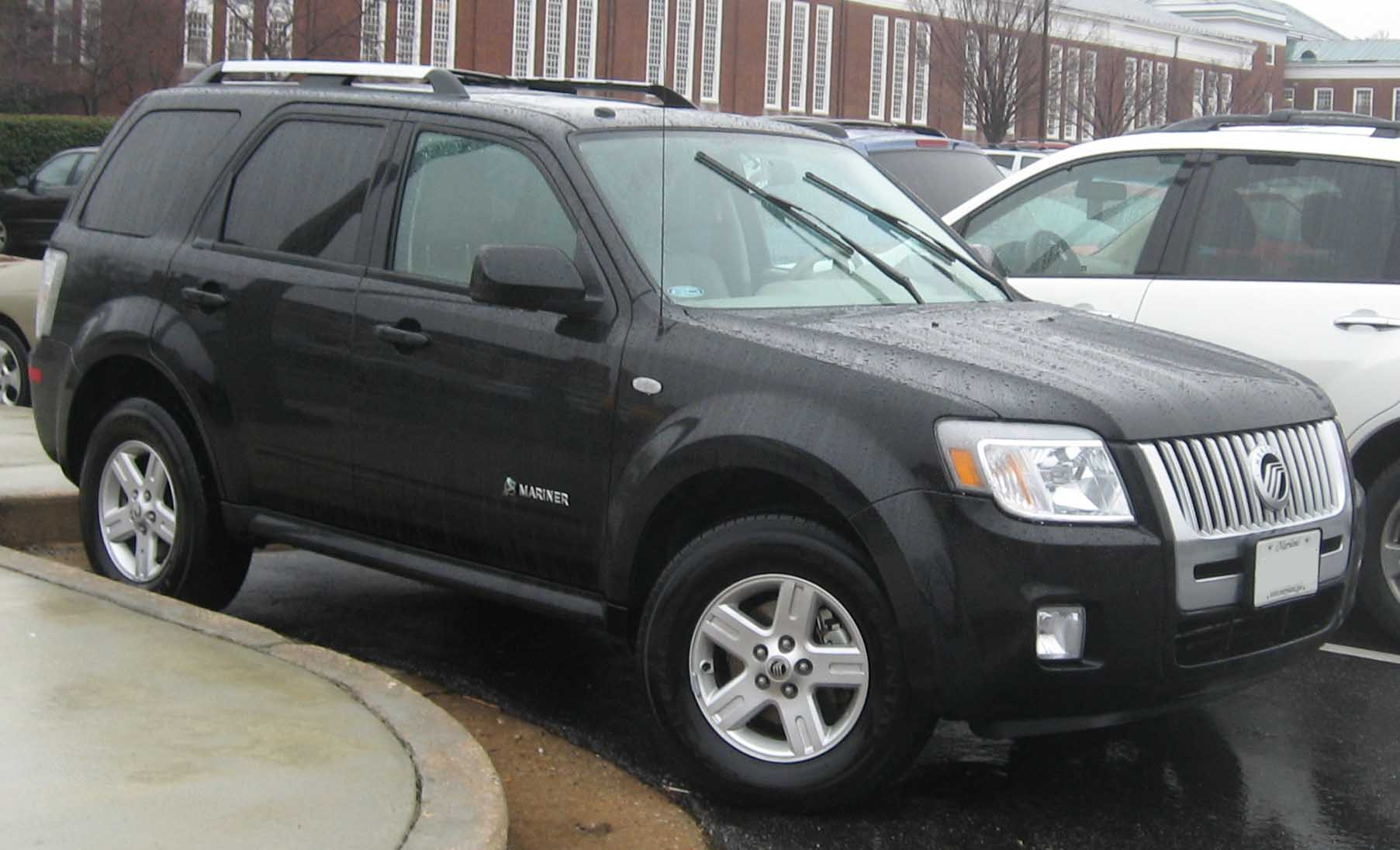 2008 Mercury Mariner photographed in College Park, Maryland, USA.